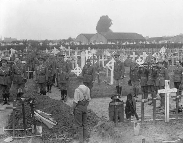 The Last Post being played at the funeral of Brigadier-General Charles H J Brown, June 1917, Bailleul, France. Last Post, funeral of General C H J Brown, Bailleul, France, World War I. Royal New Zealand Returned and Services' Association :New Zealand official negatives, World War 1914-1918. Ref: 1/2-013382-G. Alexander Turnbull Library, Wellington, New Zealand.